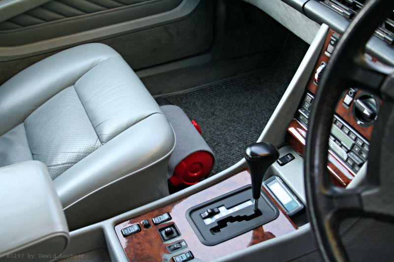 A Fire extinguisher as fitted to a car (typical practice during the 1980s). As fitted to a Mercedes-Benz 560SEC, photographed by User:Dawidl in Johannesburg, South Africa.